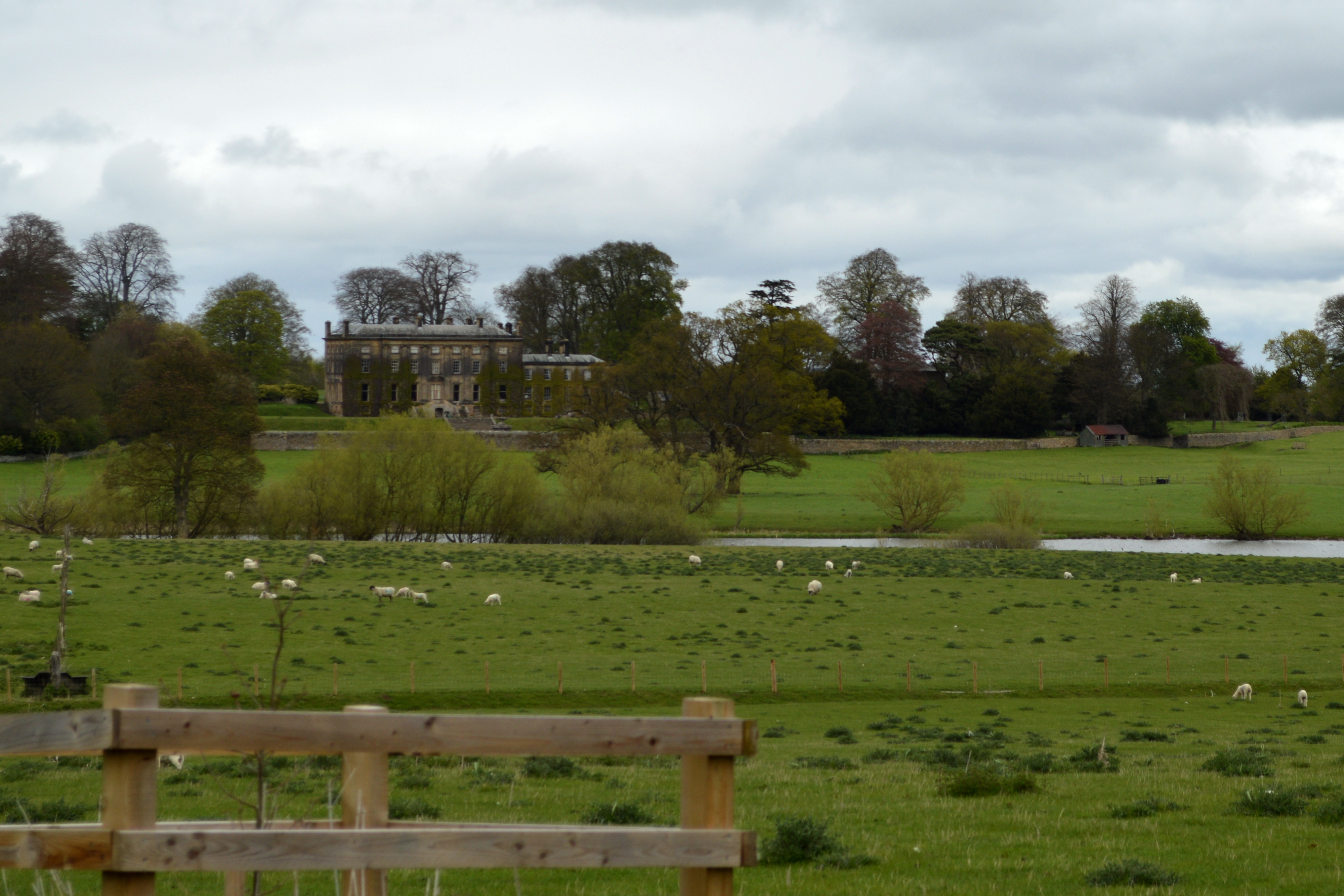 Forcett Hall, Forcett Park